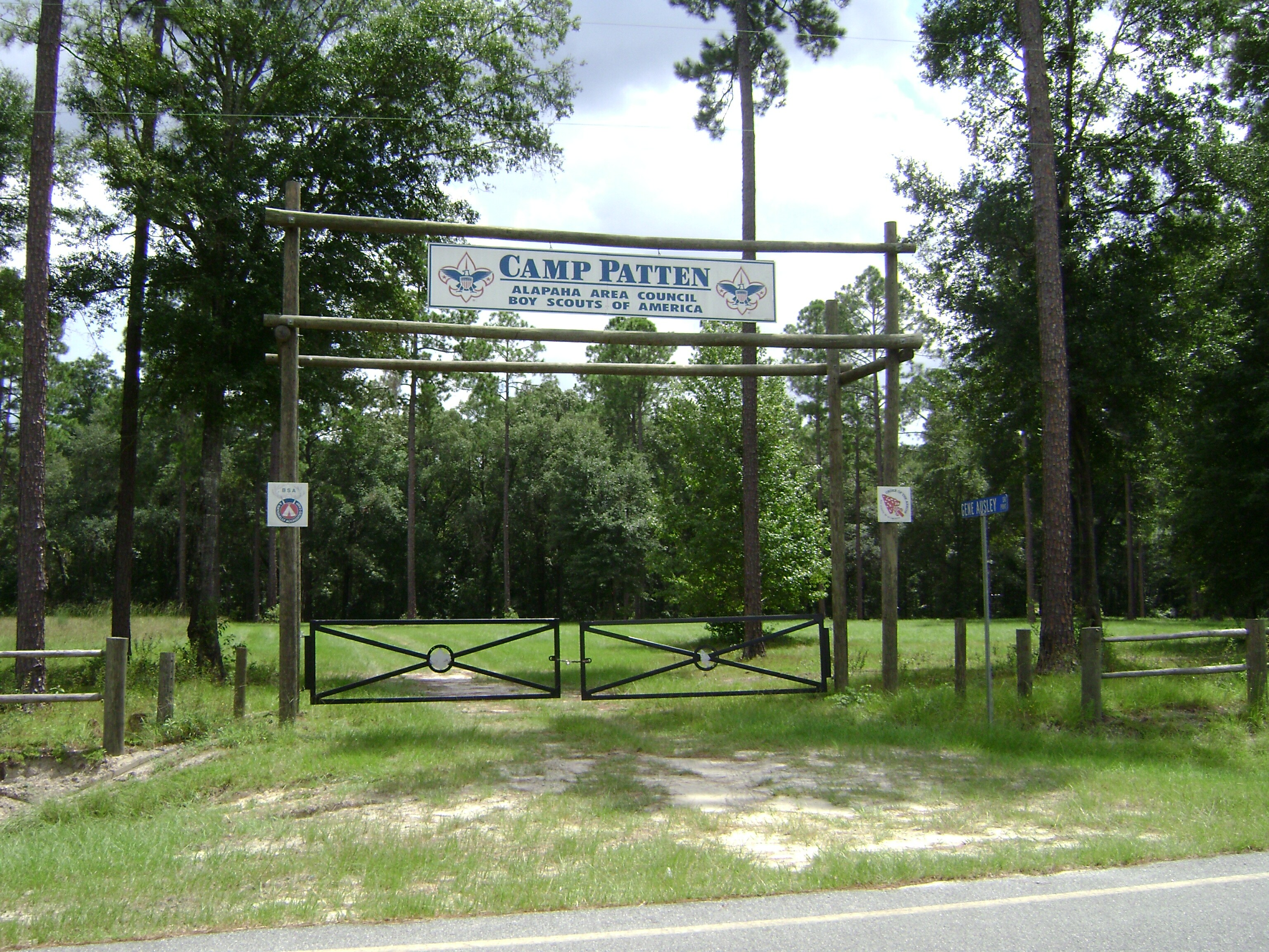 Camp Patten, Boy Scouts of America Campground in Lanier County, Georgia